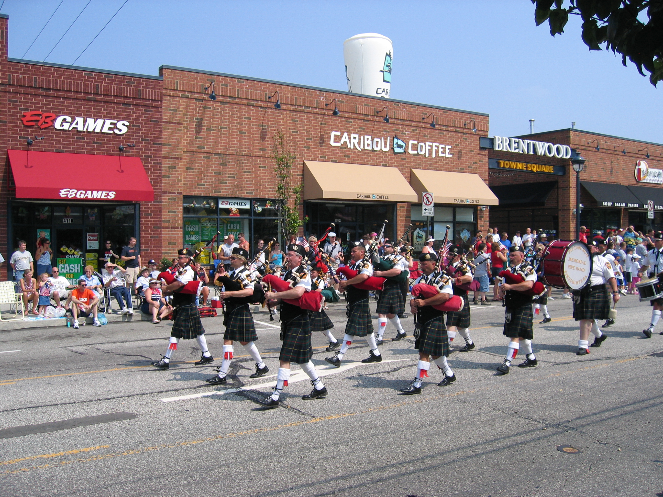 Photo taken by Ronald Yochum (myself). Brentwood Borough, Pennsylvania 4th of July parade. Taken at the Brentwood Town Center